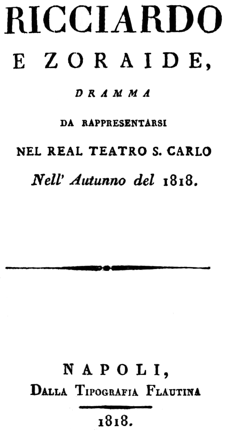 Gioachino Rossini - Ricciardo e Zoraide - titlepage of the libretto - Naples 1818